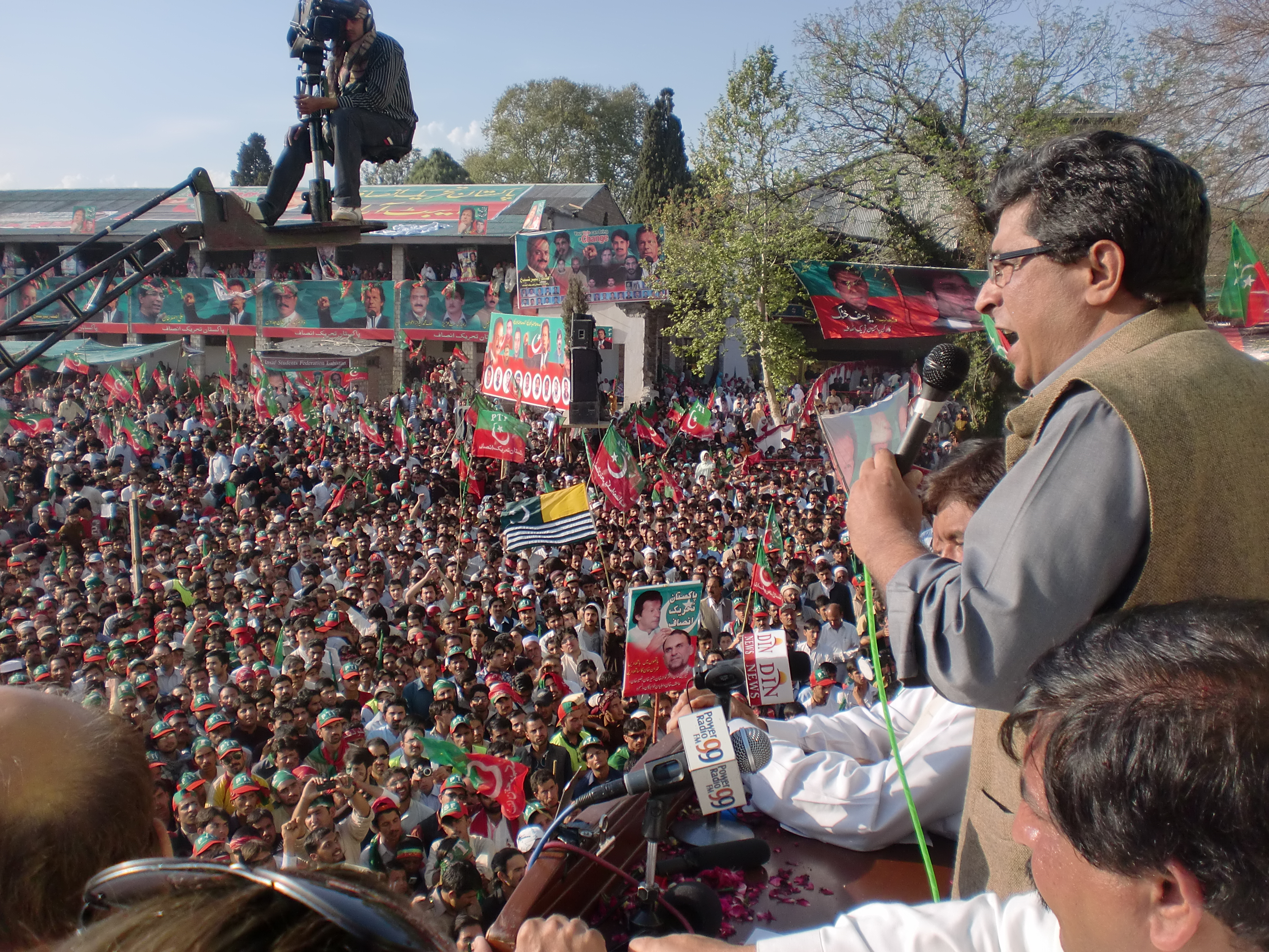 Ali Asghar Khan a key leader of Pakistan Tehrik Insaf address to public rally in Abbottabad